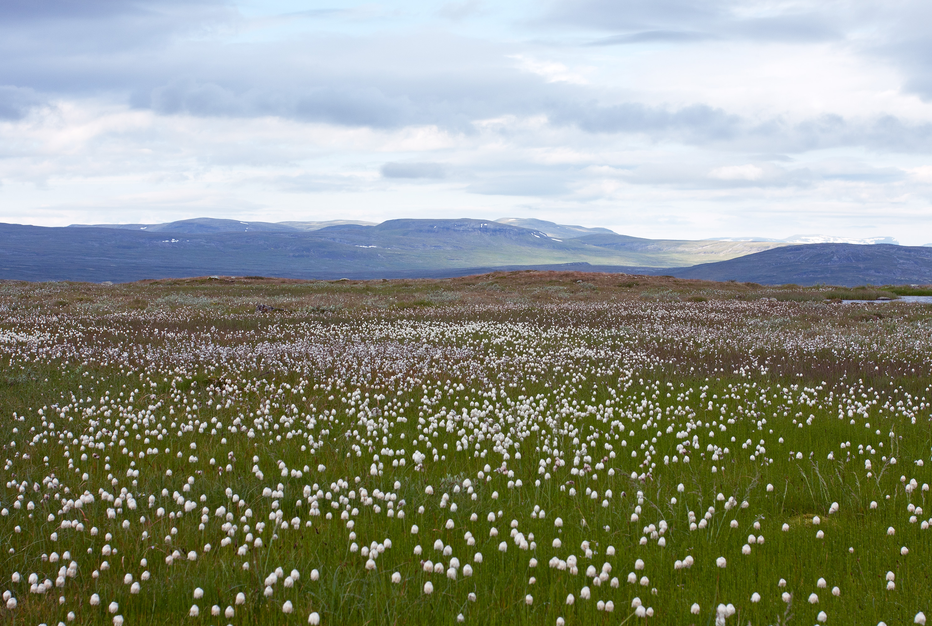 Flowers on the Hardangervidda plateau / Norway